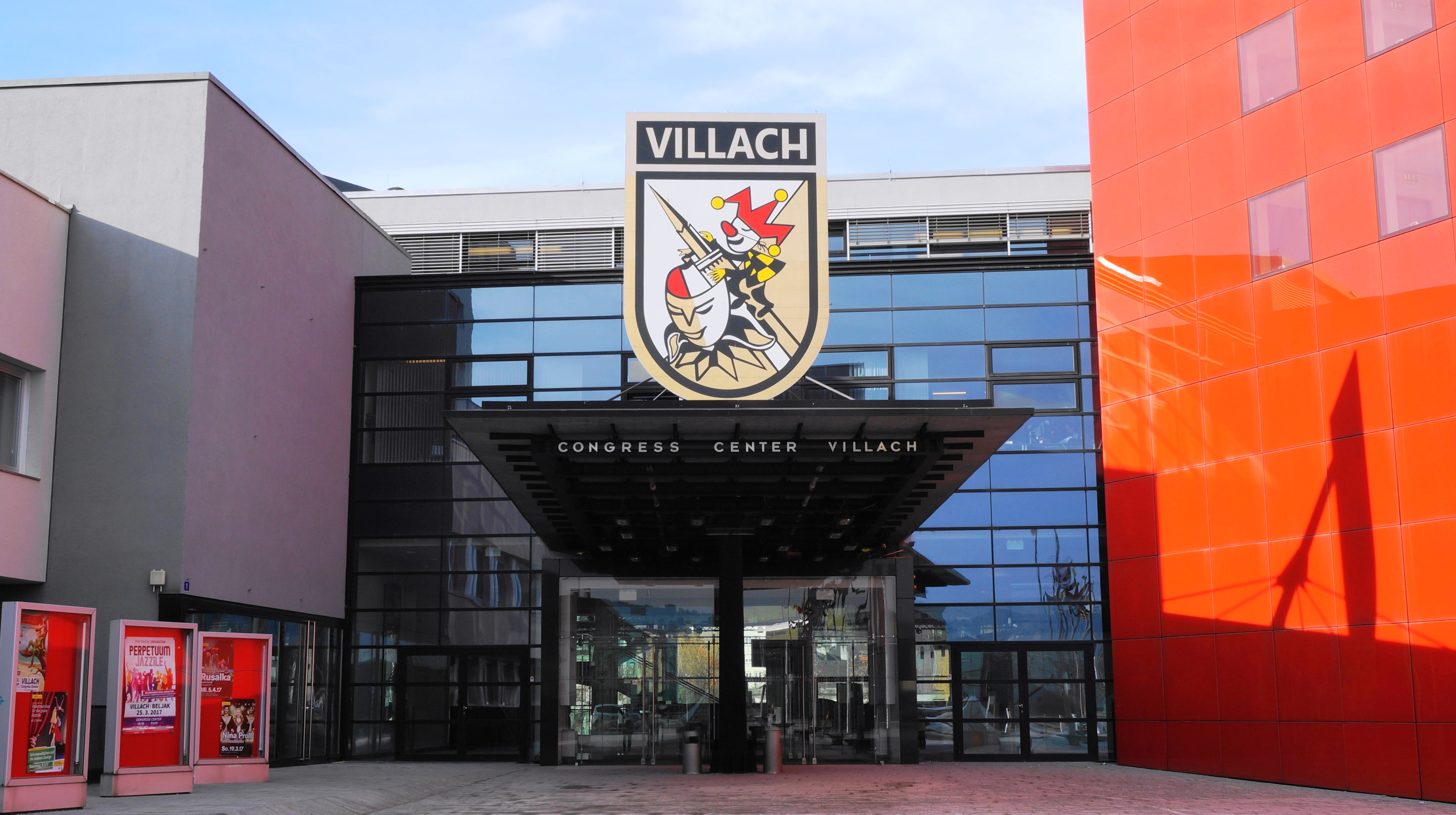 CCV Congress Center Villach, Austria, Carinthia. Location for Events and Congresses